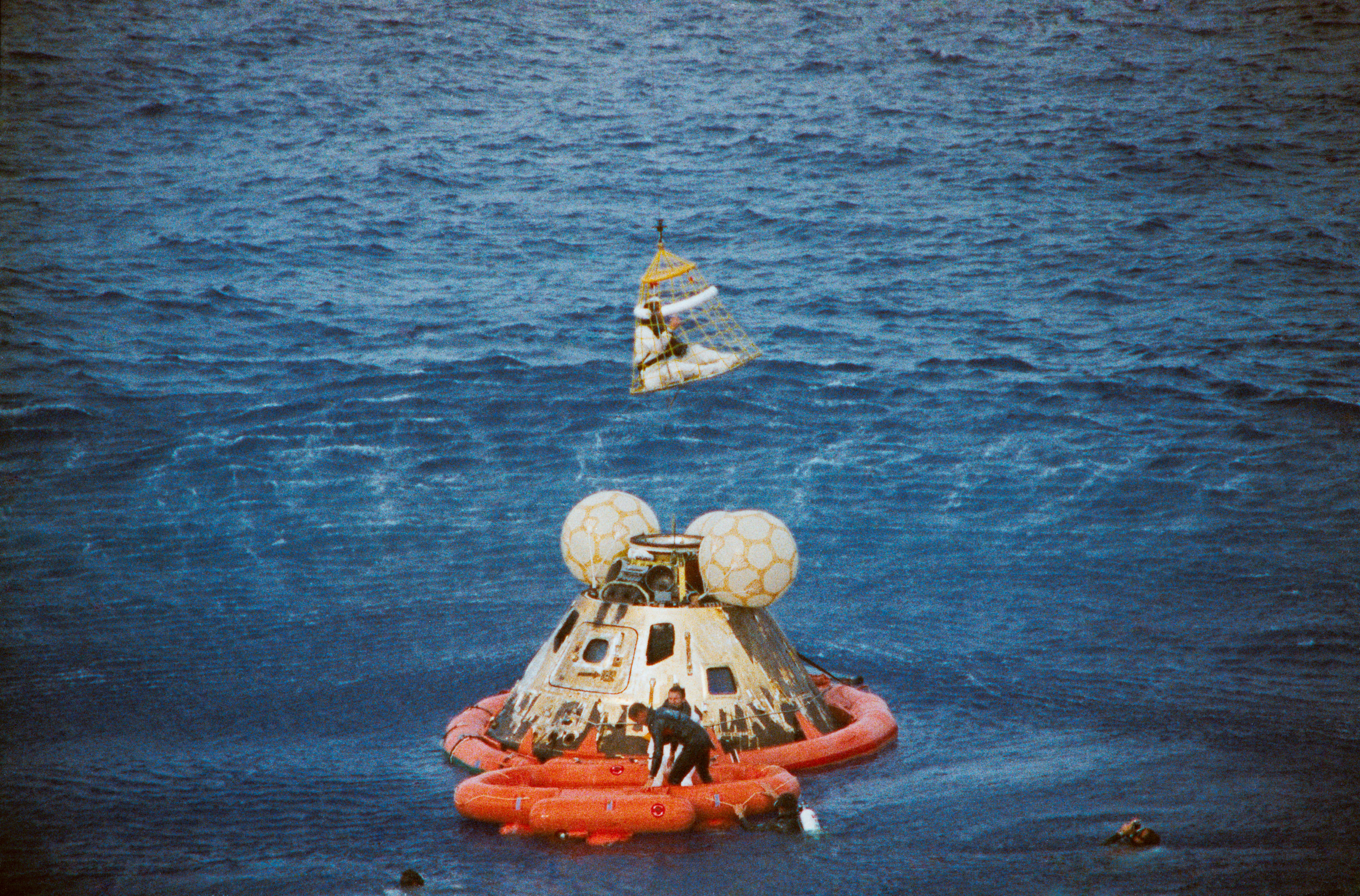 S70-35651 (17 April 1970) --- Astronaut John L. Swigert Jr., command module pilot, is lifted aboard a helicopter in a "Billy Pugh" net while astronaut James A. Lovell Jr., commander, awaits his turn. Astronaut Fred W. Haise Jr., lunar module pilot, is already aboard the helicopter. In the life raft with Lovell, and in the water are several U.S. Navy underwater demolition team swimmers, who assisted in the recovery operations. The crew was taken to the USS Iwo Jima, prime recovery ship, several minutes after the Apollo 13 spacecraft splashed down at 12:07:44 p.m. (CST), April 17, 1970.